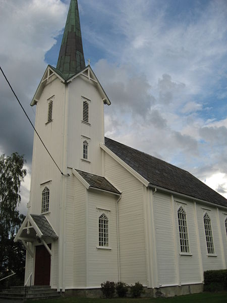 The church on the island of Ytterøy in the Trondheimsfjord, Norway. Photo taken by Alan Ford, 2006-09-02.